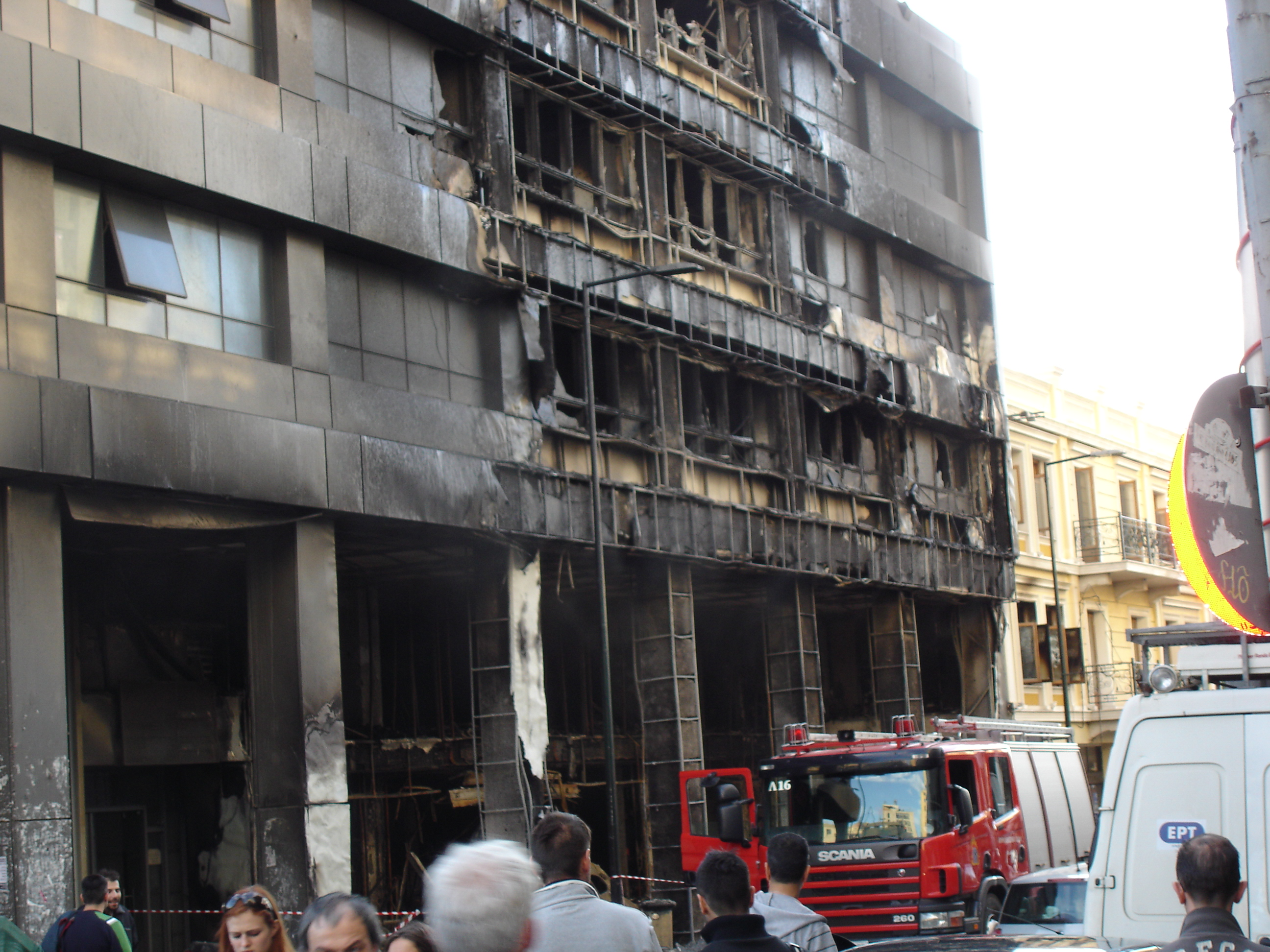 Burned building, Ermou Street, Monastiraki after first night of riots